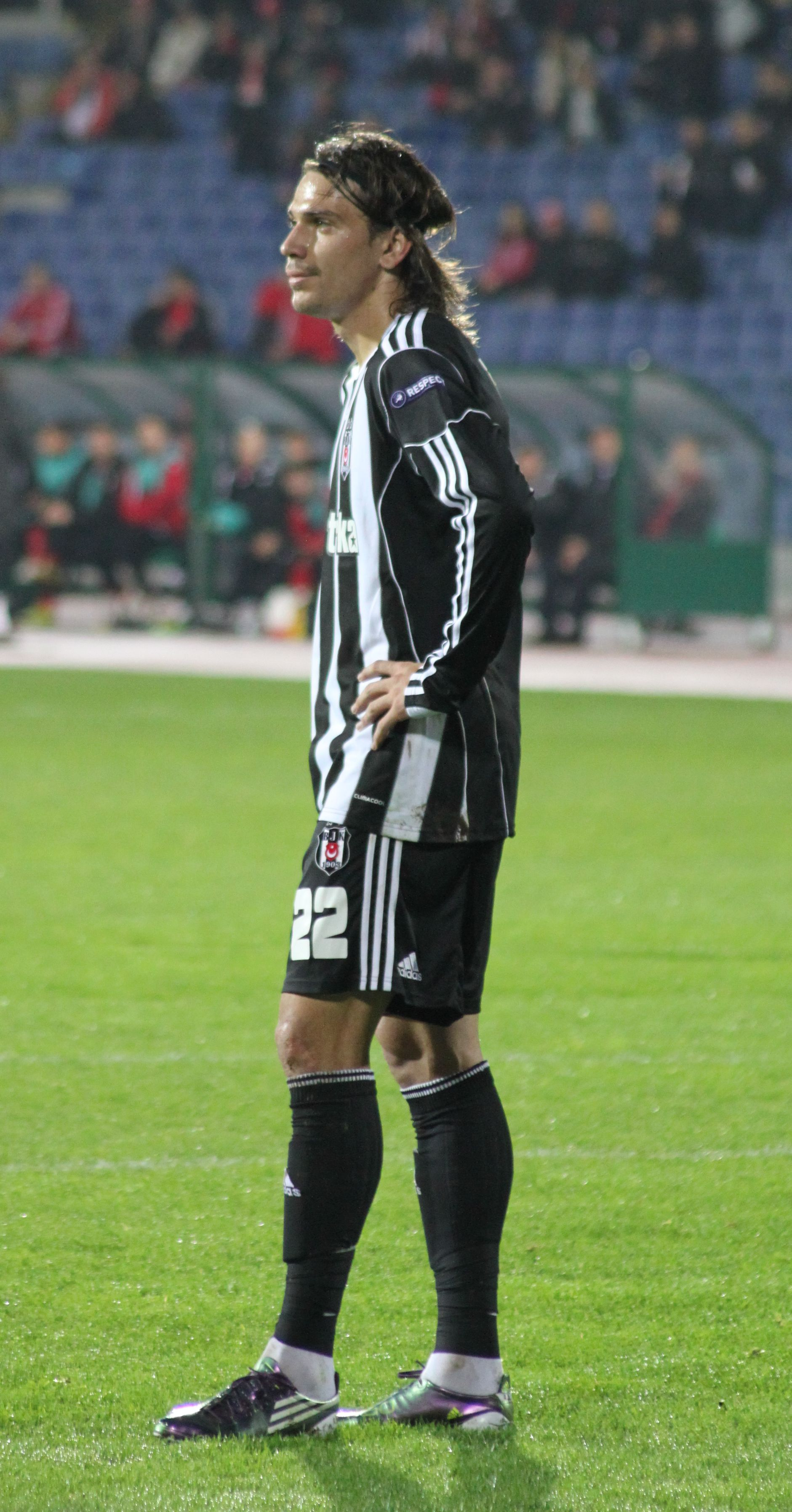 Ersan Adem Gülüm (born 17 May 1987) is a Turkish[1] professional football player of Australian birth currently playing as a defender for Beşiktaş in the Spor Toto Süper Lig.